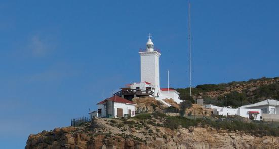 Taken on holiday in Mossel Bay, South Africa, May 2009